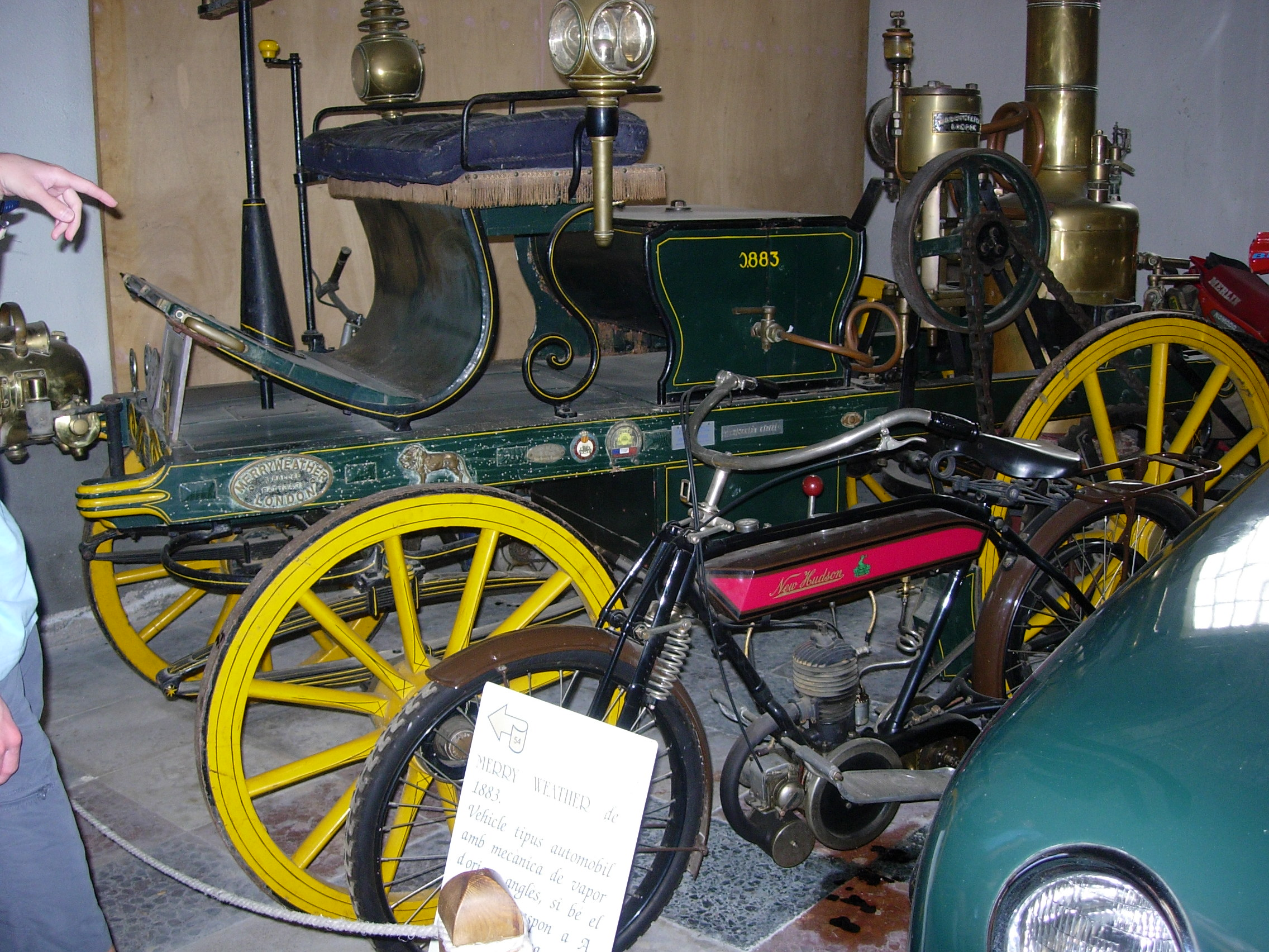 Merryweather steam fire engine (1883)